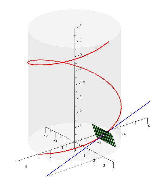 Example of a space curve (parametric) and its tangent line and normal plane